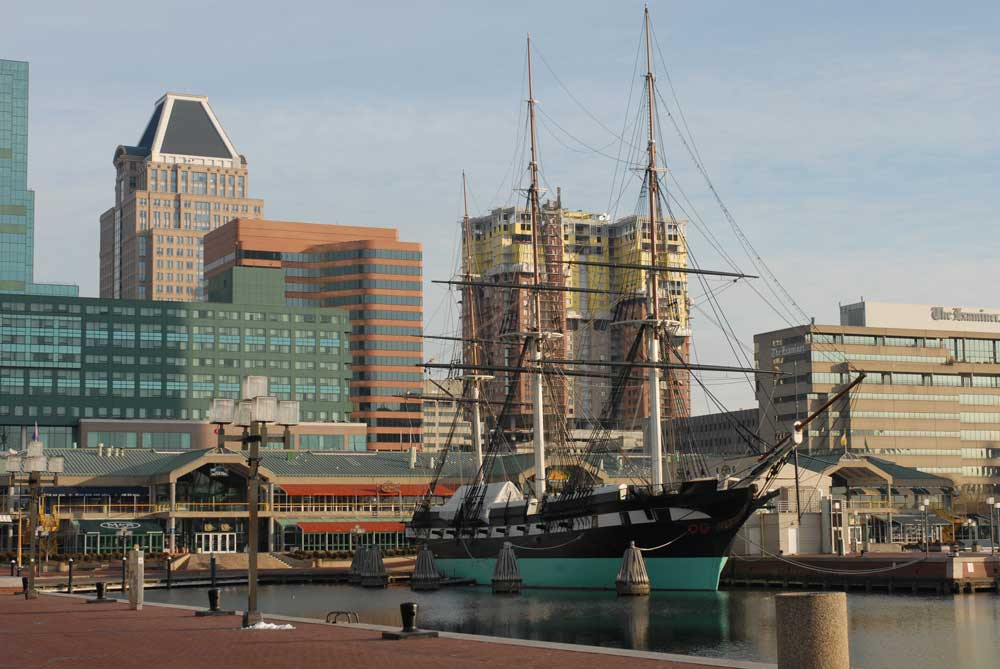 The USS Constellation docked in Baltimore's Inner Harbor. Photo by Chuck Szmurlo taken Feb. 11, 2007 with aa Nikon D200 and a Nikon 28-70 f2.8 lens.